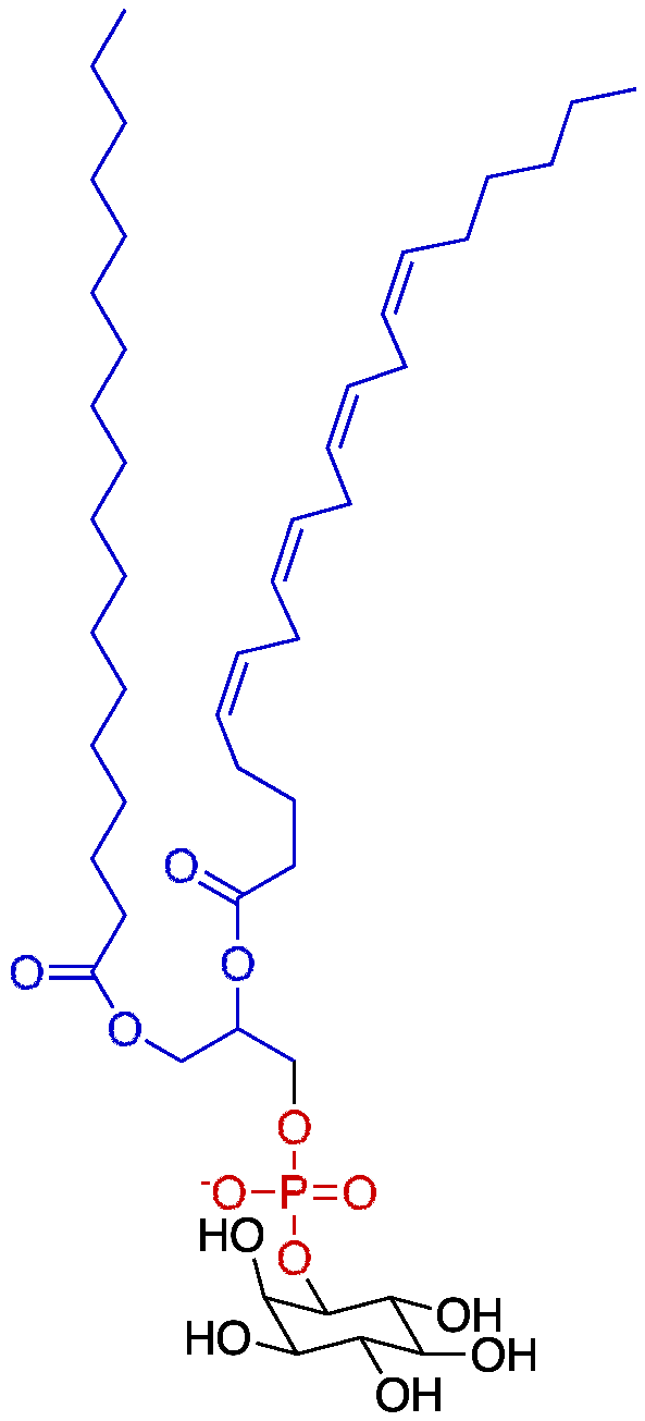 Structure of sn-1-stearoyl-2-arachidonoyl phosphatidylinositol